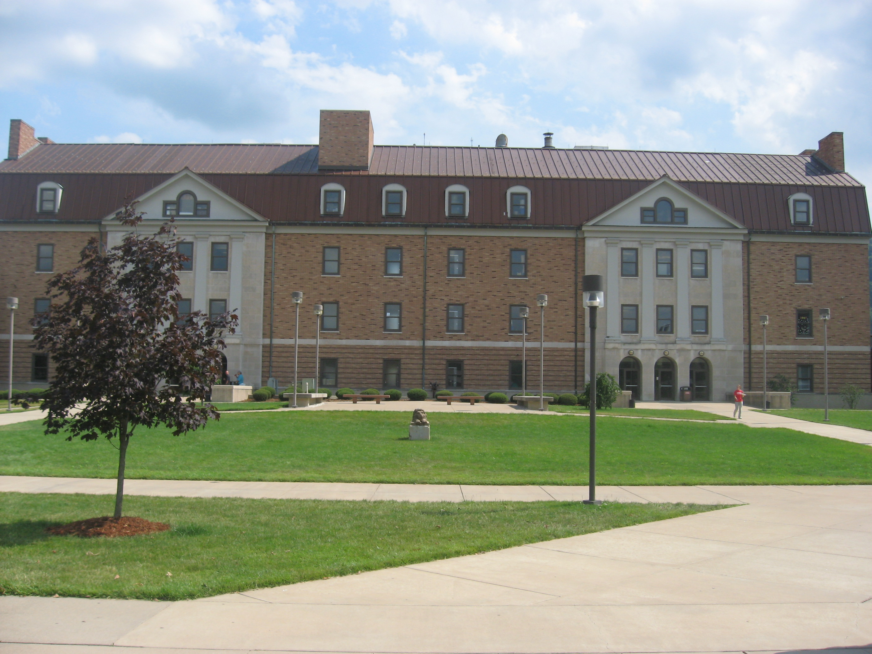 Massie Hall is the oldest building used by Shawnee State University